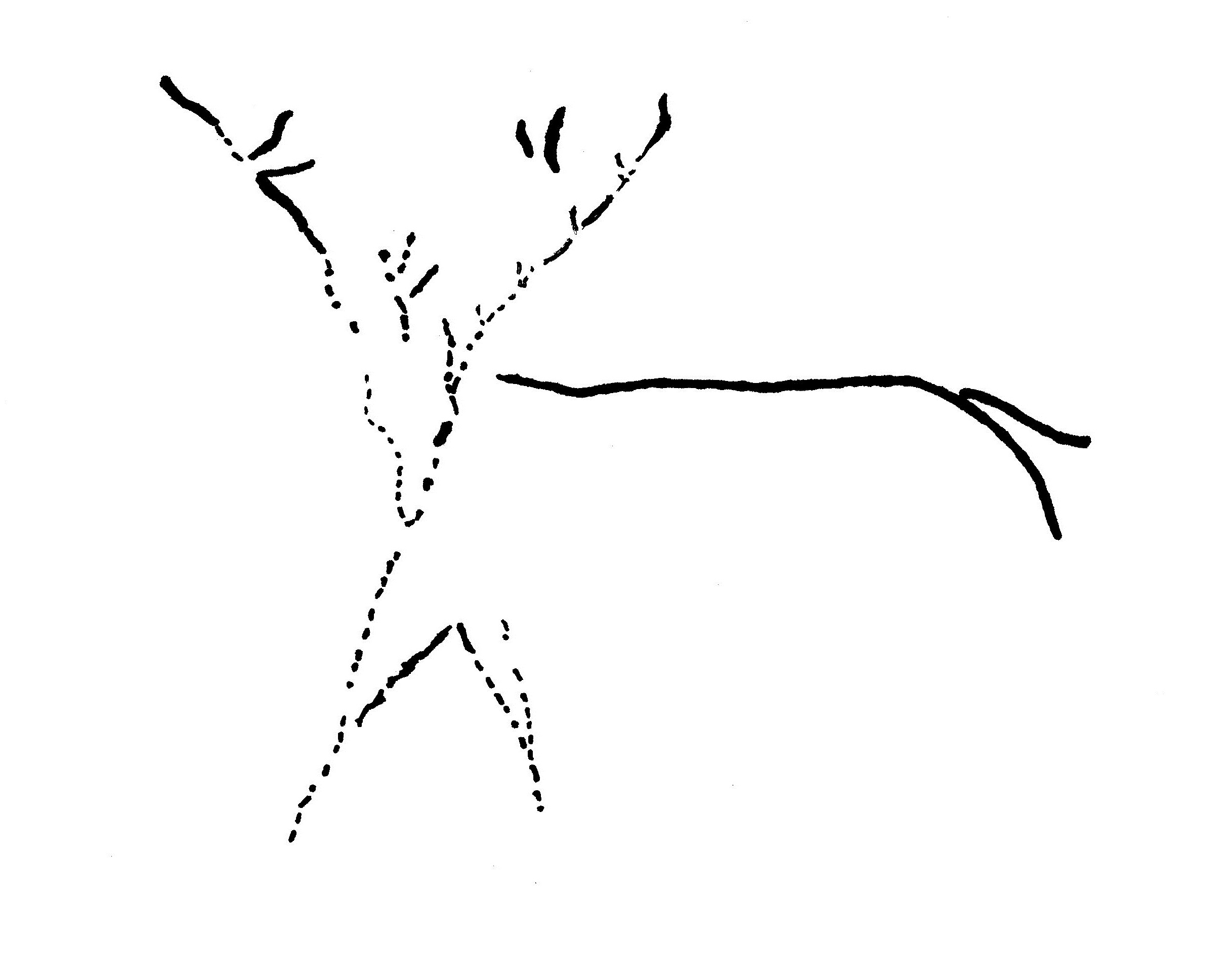 Bayol cave, Collias, Gard, France. Copy of a drawing by Dr Edouard Drouot (in "Les peintures de la grotte Bayol à Collias (Gard) et l'art pariétal en Languedoc méditerranéen", p. 404), of an aurignacian cave wall painting of a deer. The only lines drawn by the aurignacian artist are those of the back and of the tail; the other lines are represented by "accidents" in the rock wall.